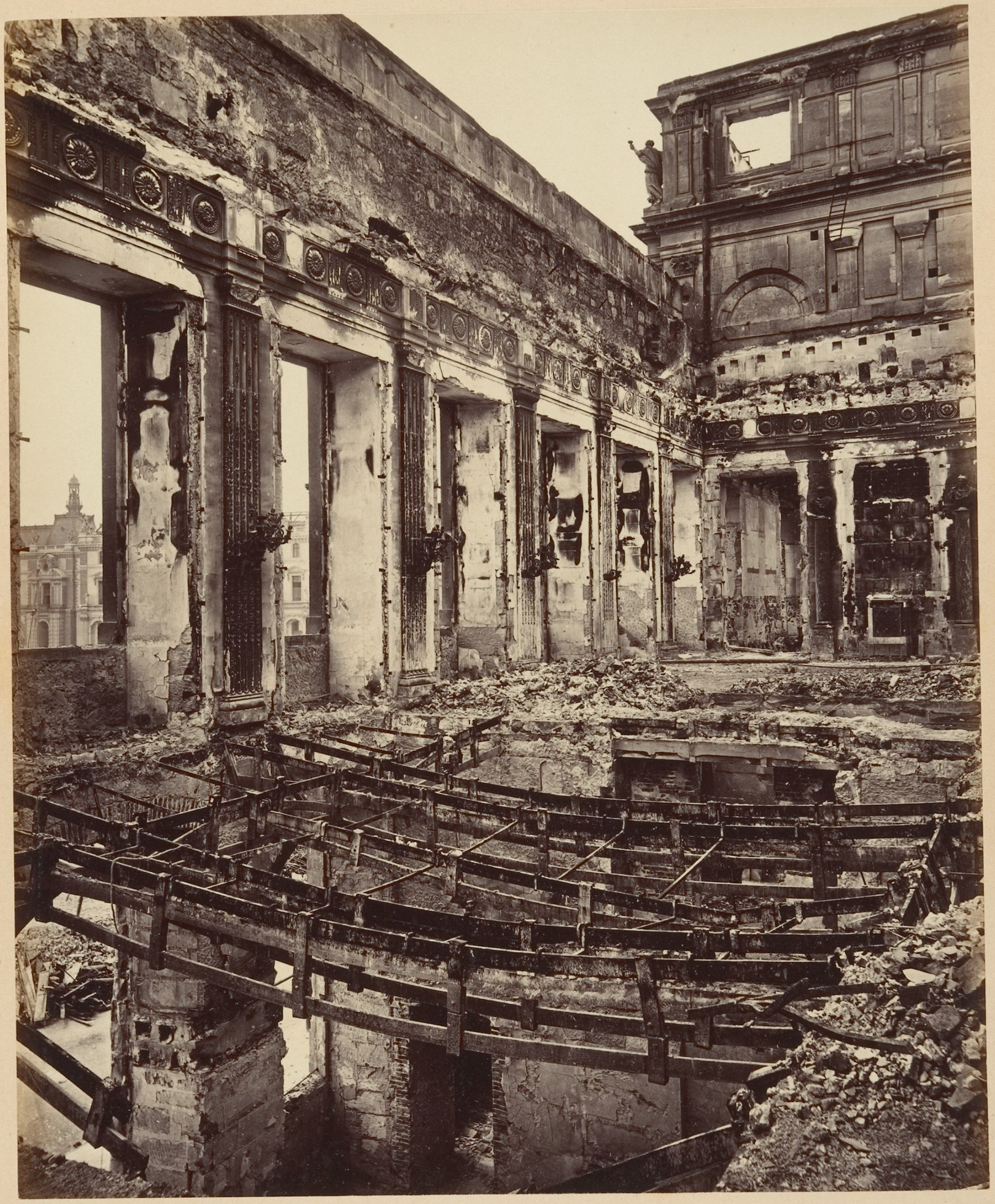 Les Ruines de Paris et de ses Environs 1870-1871: Cent Photographies: Premier Volume. Par A. Liébert, text par Alfred d'Aunay. Author: Alfred d'Aunay (French) Date: 1870–71 Medium: Albumen silver prints from glass negatives Dimensions: Images approx.: 19 x 25 cm (7 1/2 x 9 13/16 in.), or the reverse Mounts: 32.8 x 41.3 cm (12 15/16 x 16 1/4 in.), or the reverse Classification: Albums Credit Line: Joyce F. Menschel Photography Library Fund, 2007 Accession Number: 2007.454.1.1–.33